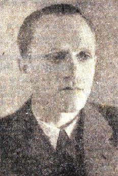 Viktor Avbelj - Rudi (1914-1993), Slovene partisan and communist politician }